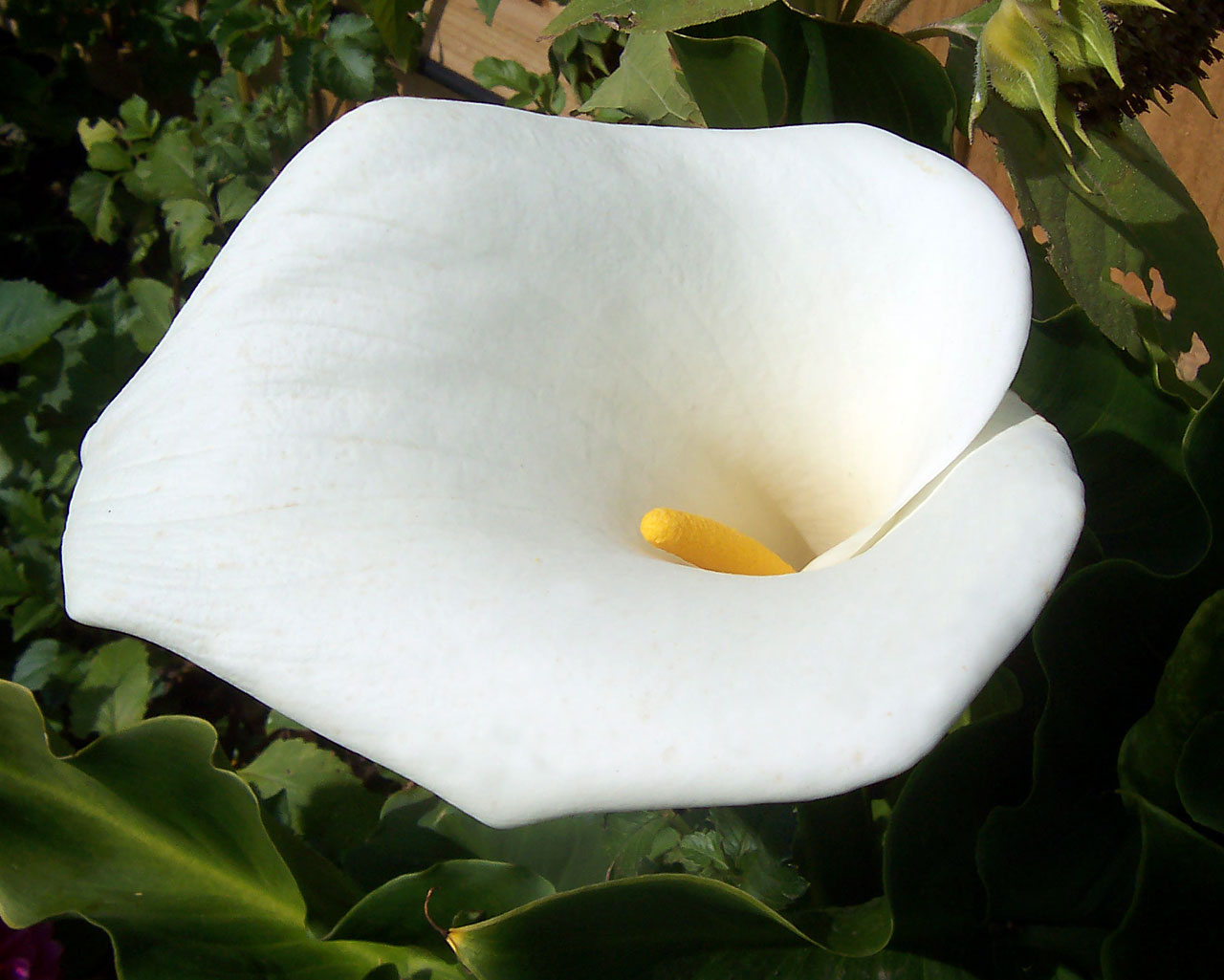 Calla Lily